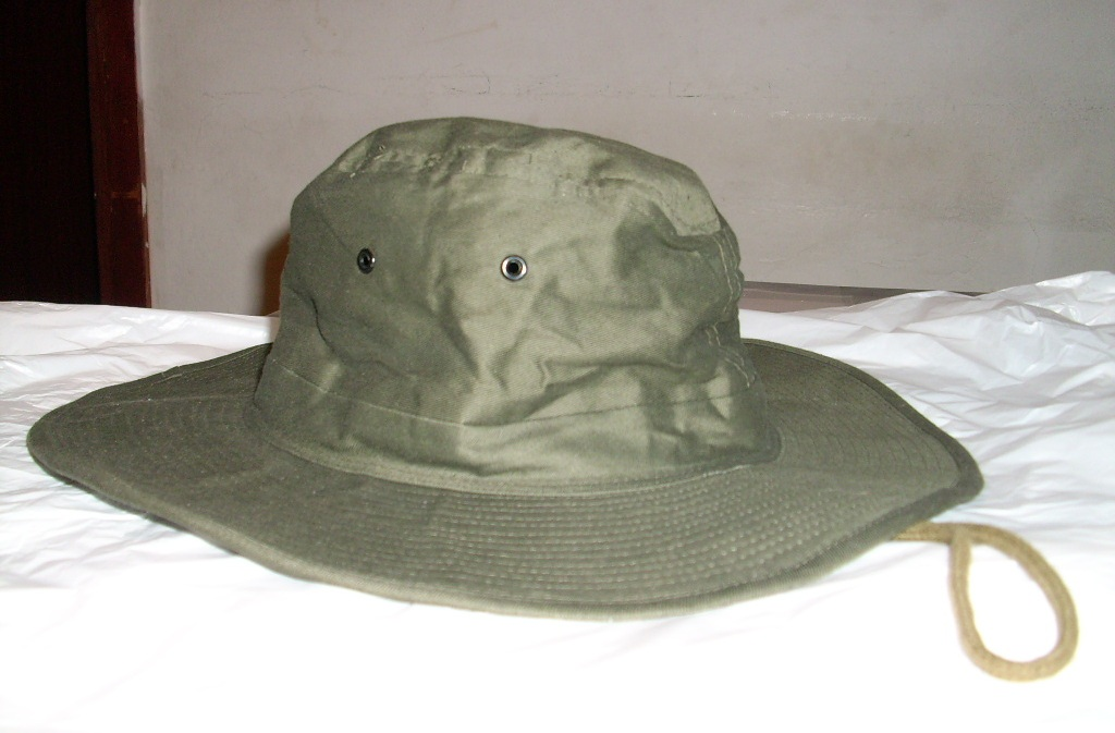 Nowadays military wide-brimmed soft hat, in cloth